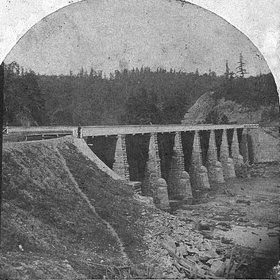 This image shows the aqueduct in Portageville which carried the Genesee Valley Canal fifty feet over the bed of the Genesee River.